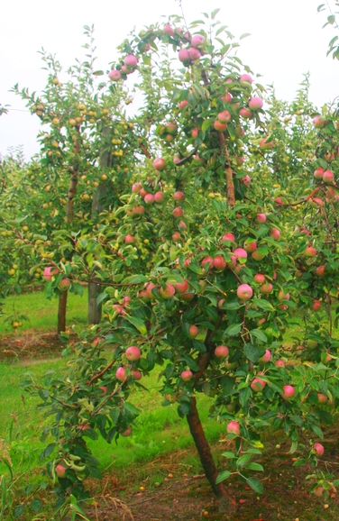 Cortland Spur Type